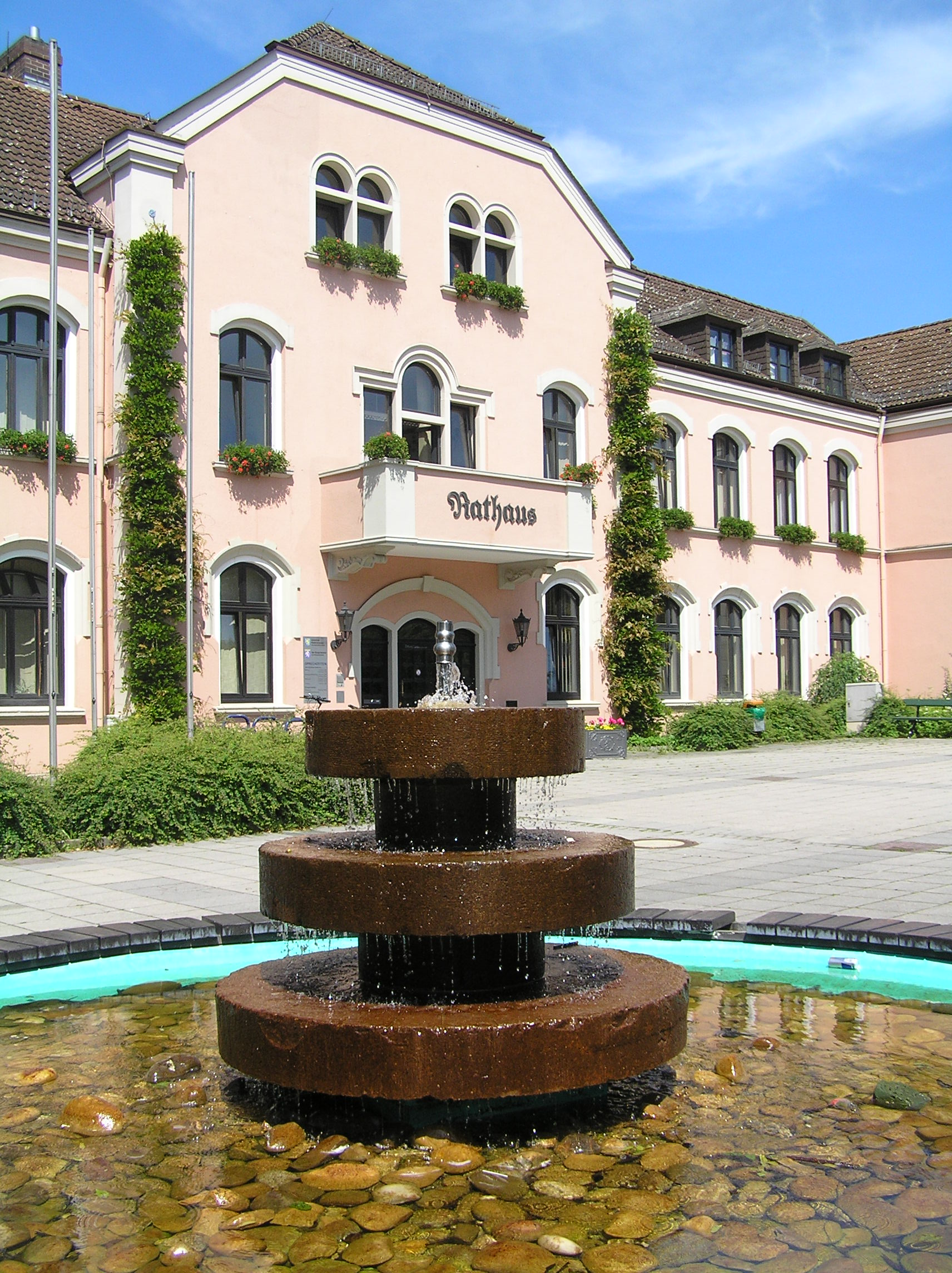 Town hall of Niedernhausen, Hesse, Germany